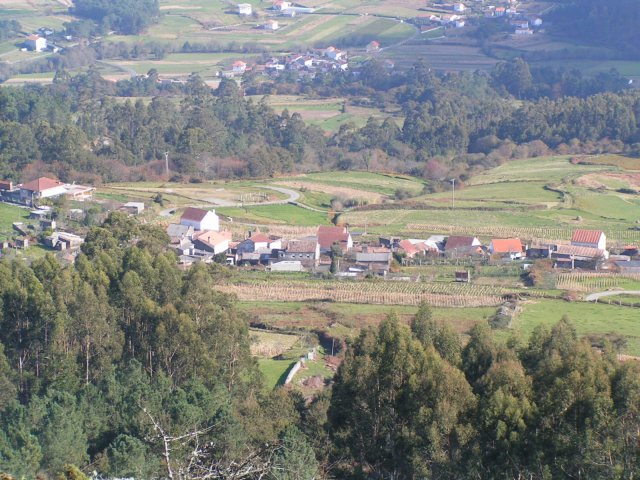 aldea de guiende